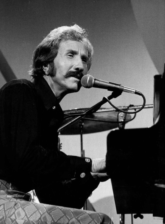 Photo of Marty Robbins performing on the television program The Midnight Special.